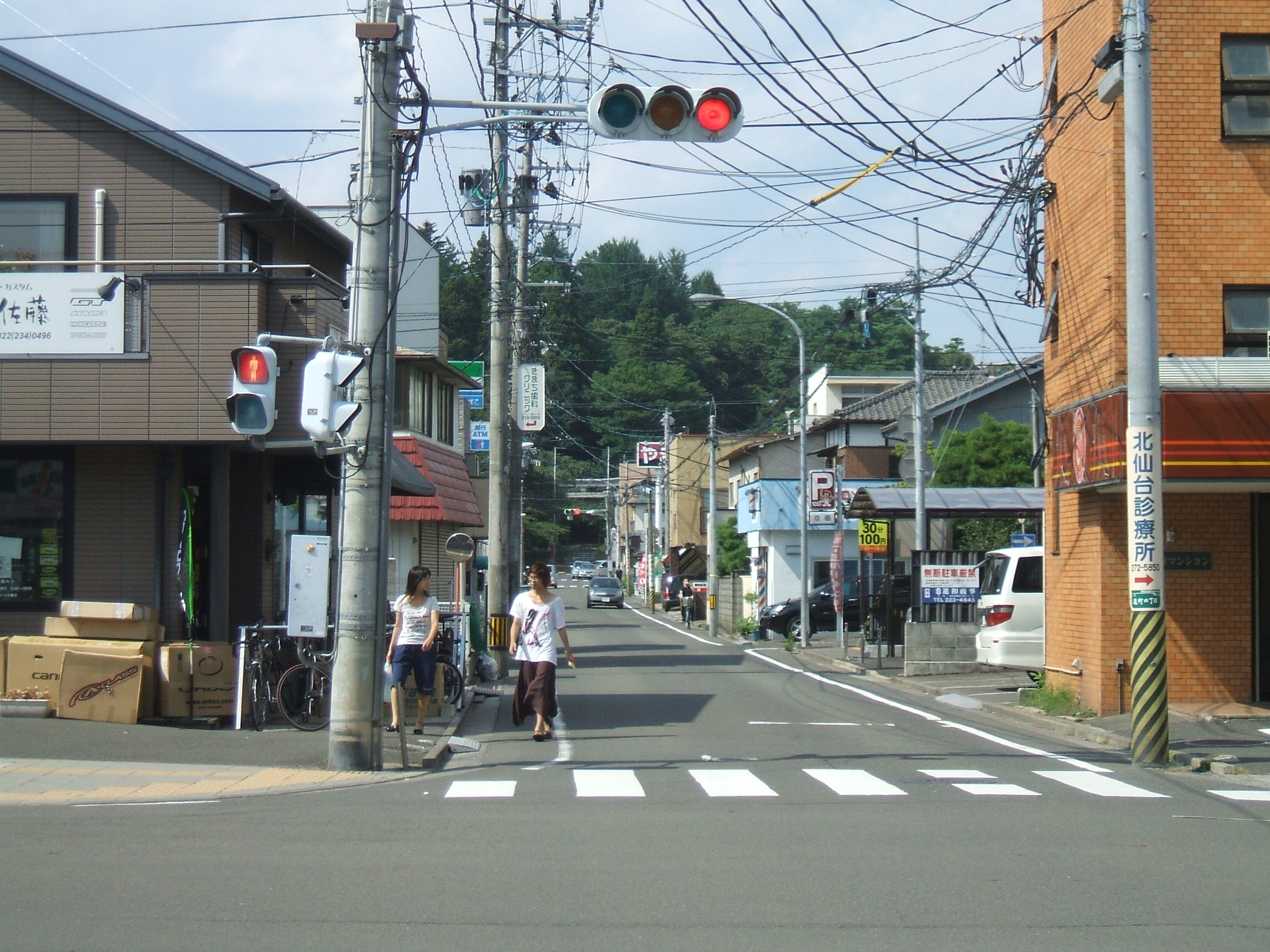 This is landscape of Aoba-Jinjya Street.